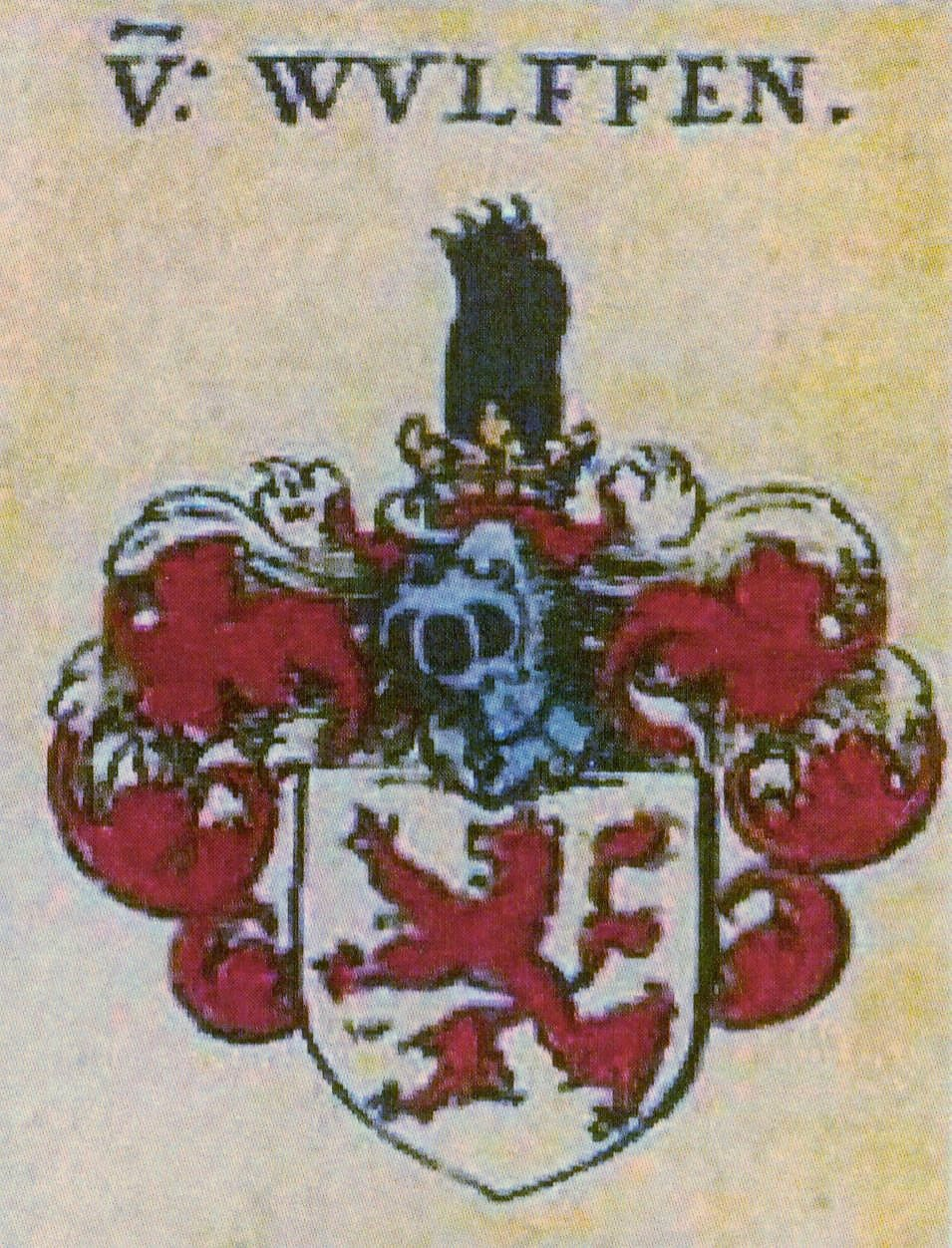 Coat of arms of the german family „von Wulffen“ (Brandenburg)